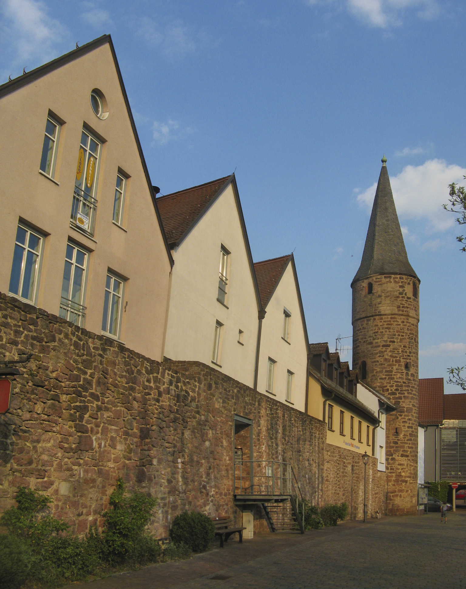 city walls Gemünden am Main / Germany